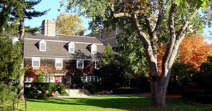 Nassau Inn at Palmer Square